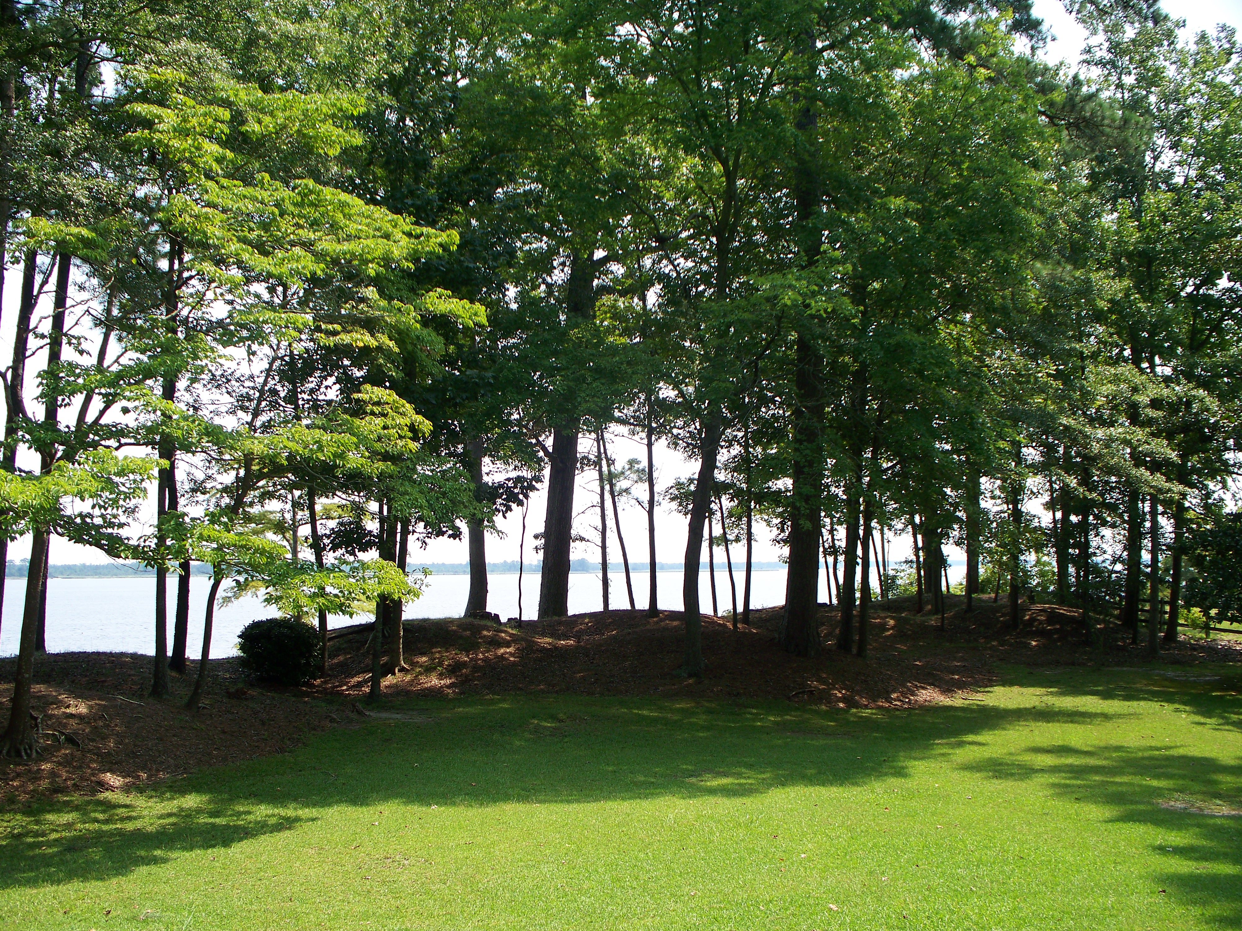 The earthen works are all that remain of Fort Thompson. They now constitute part of the backyard of a private home fronting the Neuse River in New Bern.